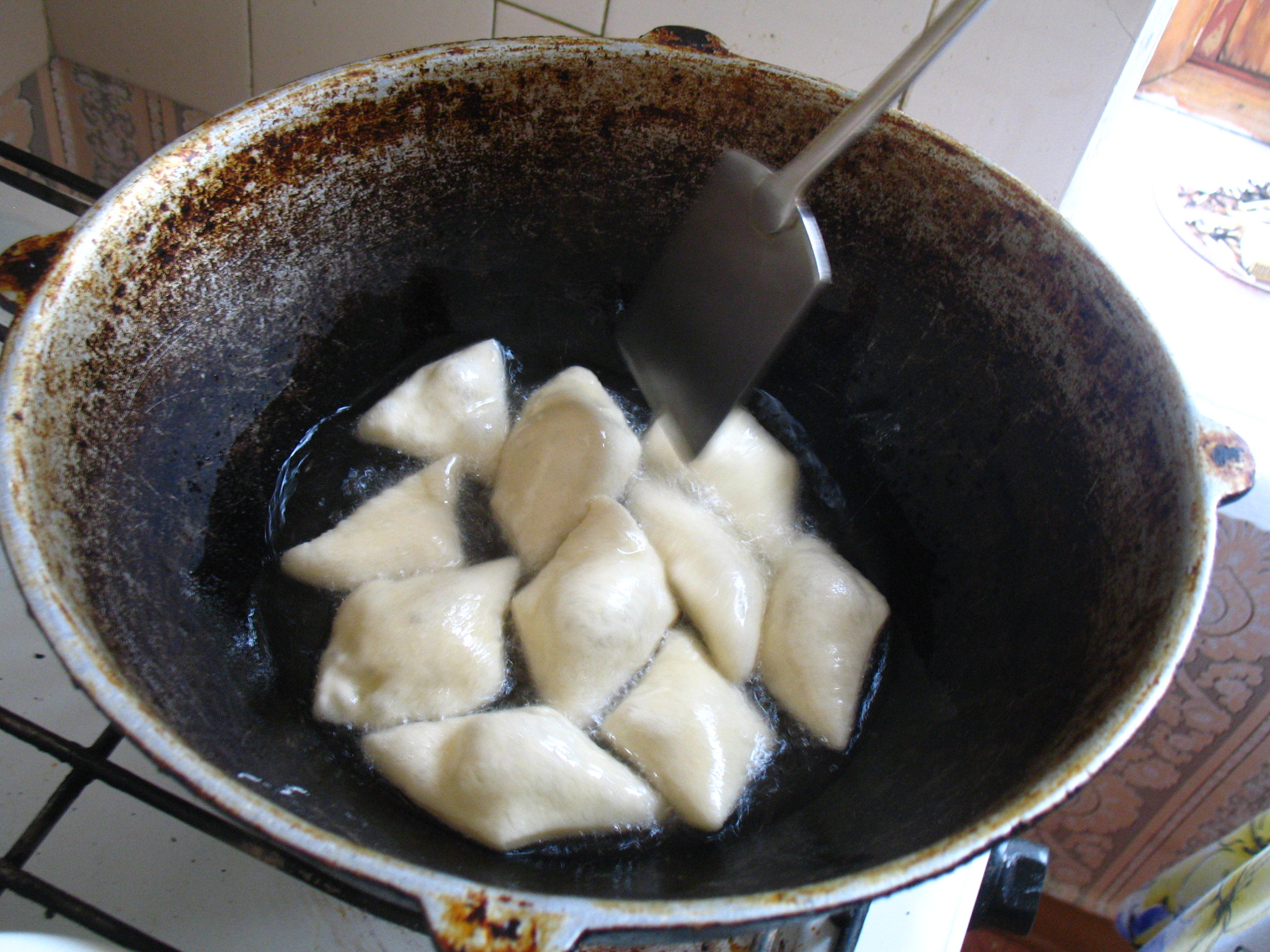 Kyrgyz boorsoq being fried in a stove-top qazan Кыргызча: Газдагы казанда кууруп жаткан боорсок